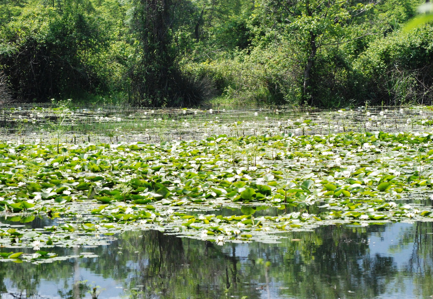 Koca Cay Delta near Lake Ulubat